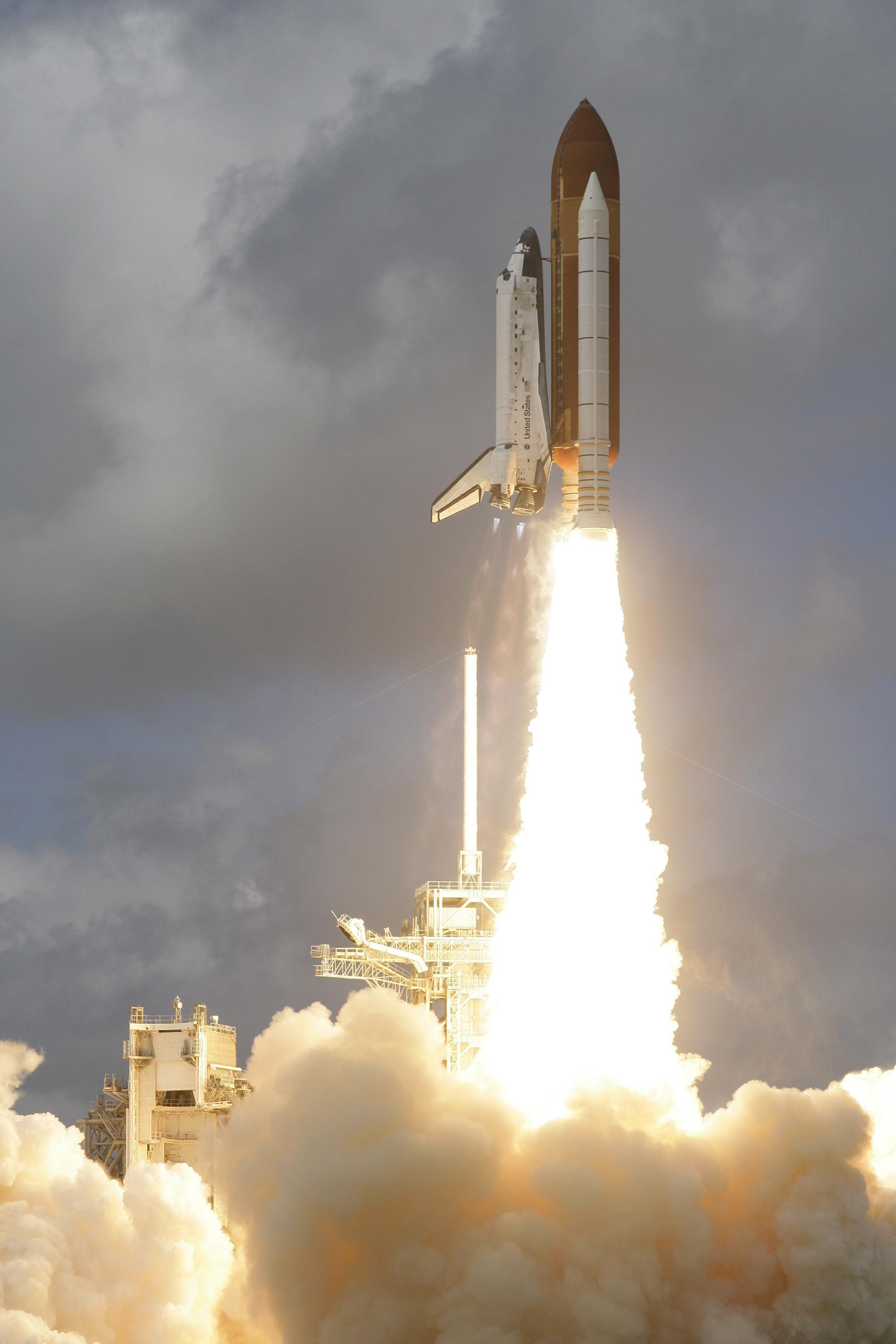 KENNEDY SPACE CENTER, FLA. -- Against a cloud-filled sky, space shuttle Discovery roars toward space, leaving billows of smoke and steam behind on Launch Pad 39A at NASA's Kennedy Space Center. Liftoff was on time at 11:38:19 a.m. EDT. Discovery carries the Italian-built U.S. Node 2, called Harmony. During the 14-day STS-120 mission, the crew will install Harmony and move the P6 solar arrays to their permanent position and deploy them. Discovery is expected to complete its mission and return home at 4:47 a.m. EST on Nov. 6.